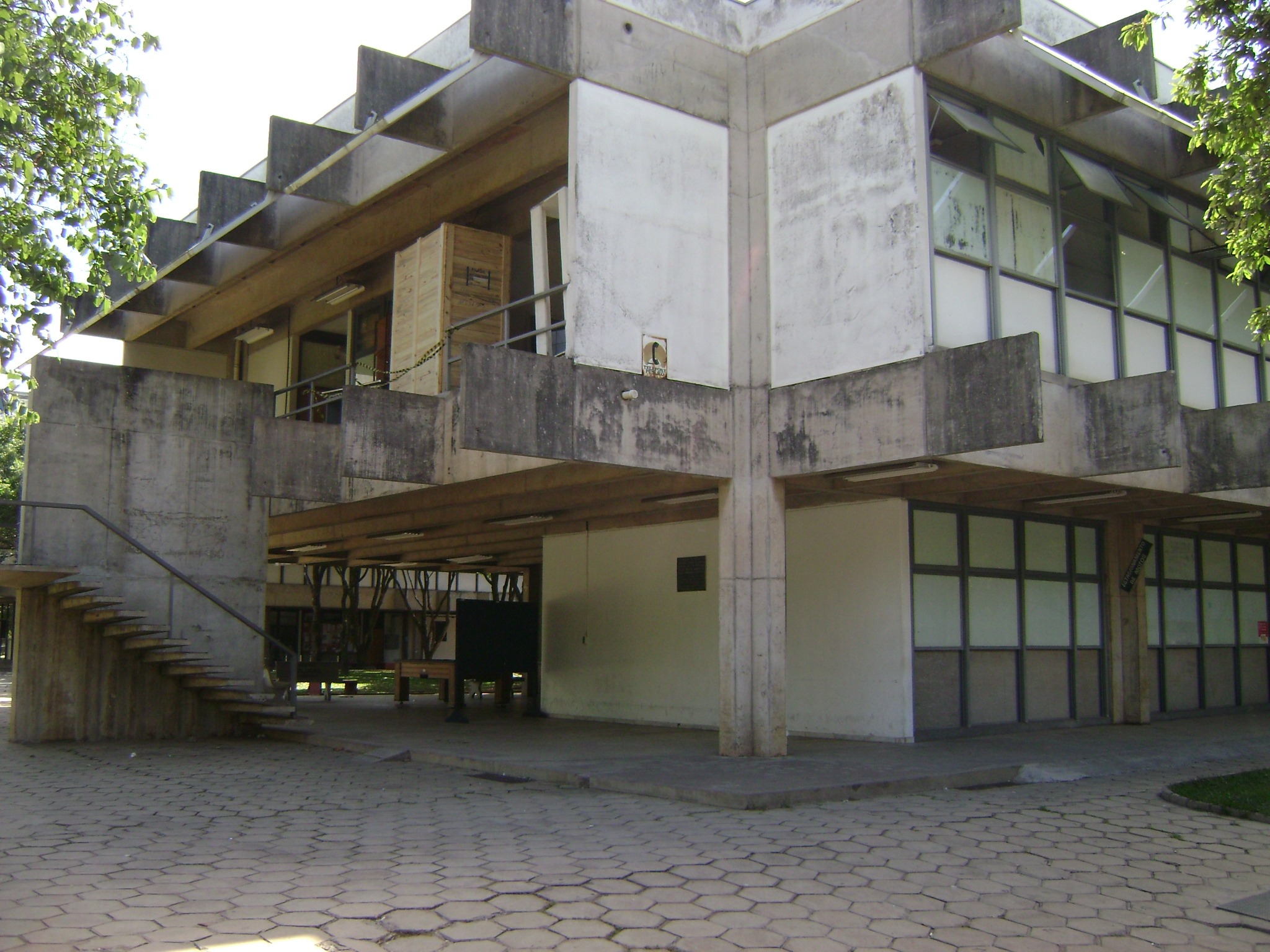 Vista parcial do edifício da Faculdade de Veterinária da UFMG.